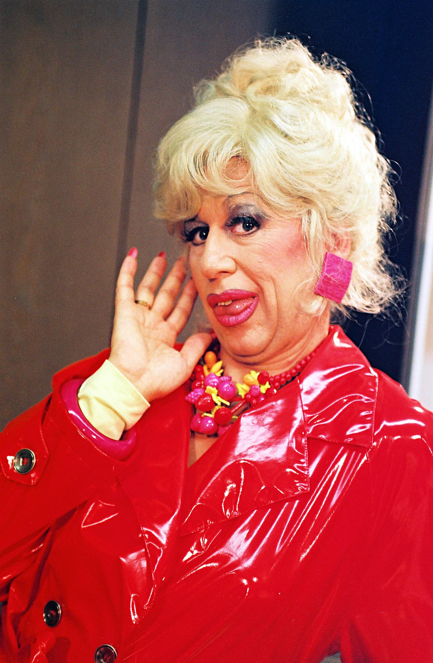 Viktor Giacobbo, Swiss Comedian